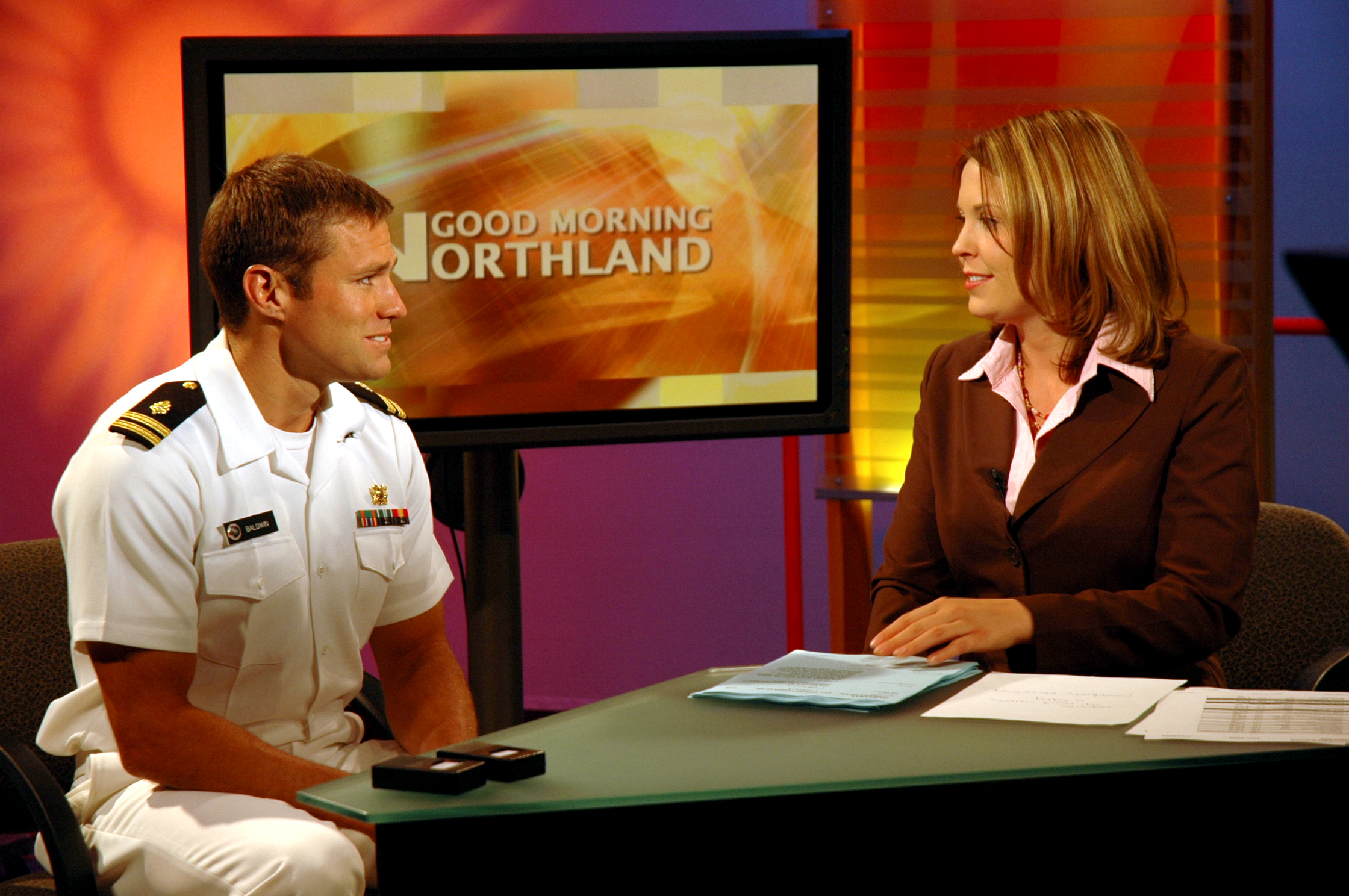 DULUTH, Minn. (July 14, 2008) Lt. Andrew Baldwin, M.D., assigned to the Navy Bureau of Medicine and Surgery, speaks with Cassie Limpert about Navy Medicine and the medical opportunities the Navy has to offer during an airing of the WDIO-TV program "Good Morning Northland." Baldwin is in Duluth to participate in several events during Duluth Navy Week, one of 22 Navy Weeks planned across America in 2008. U.S. Navy photo by Chief Mass Communication Specialist Robin Nelson (Released)